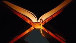 हारीत की मान्यता अत्यन्त प्राचीन धर्मसूत्रकार के रूप में हैं